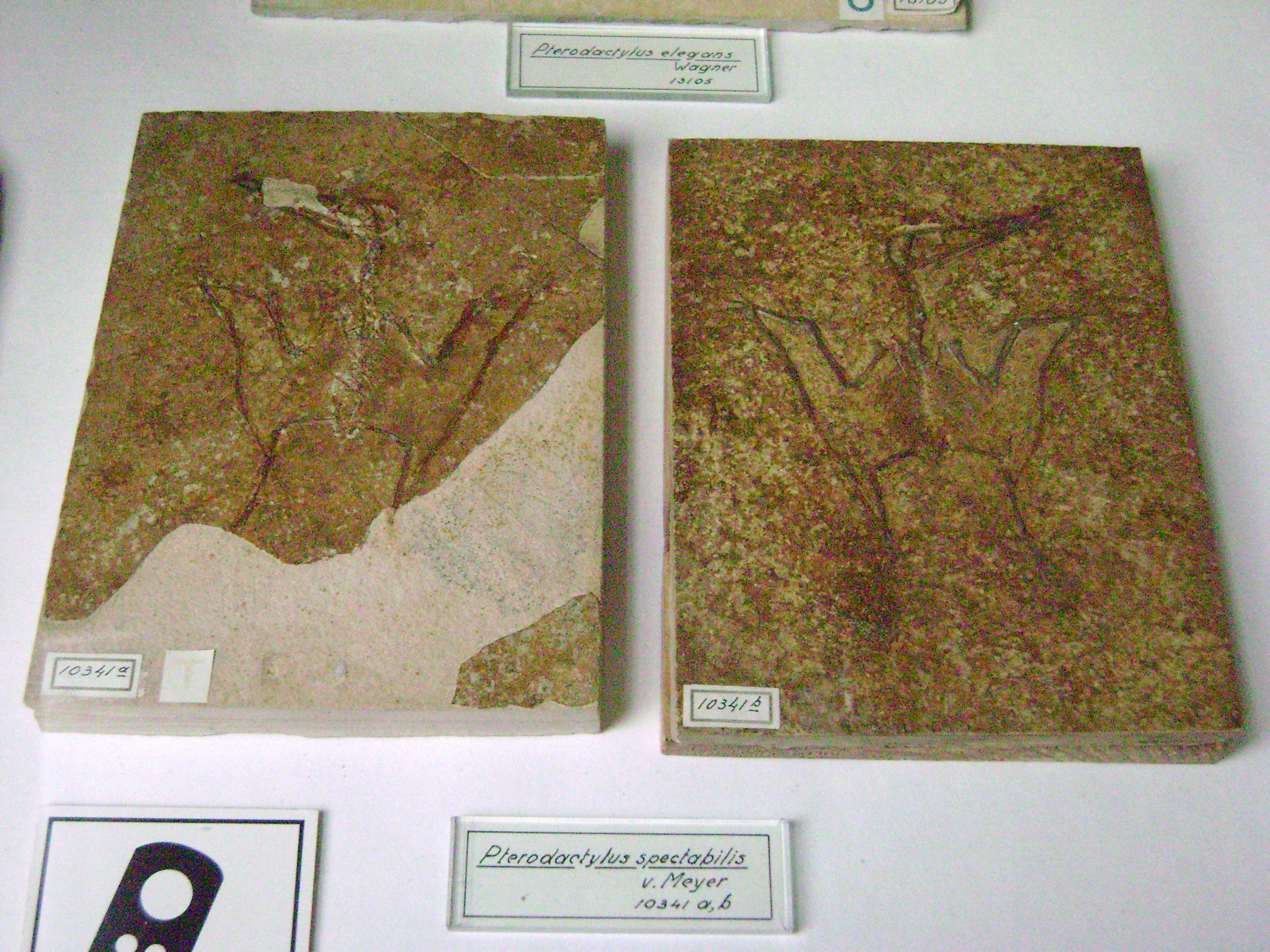 Slab and counterslab of the holotype of Pterodactylus spectabilis, TM 10341, in the Teylers Museum at Haarlem.